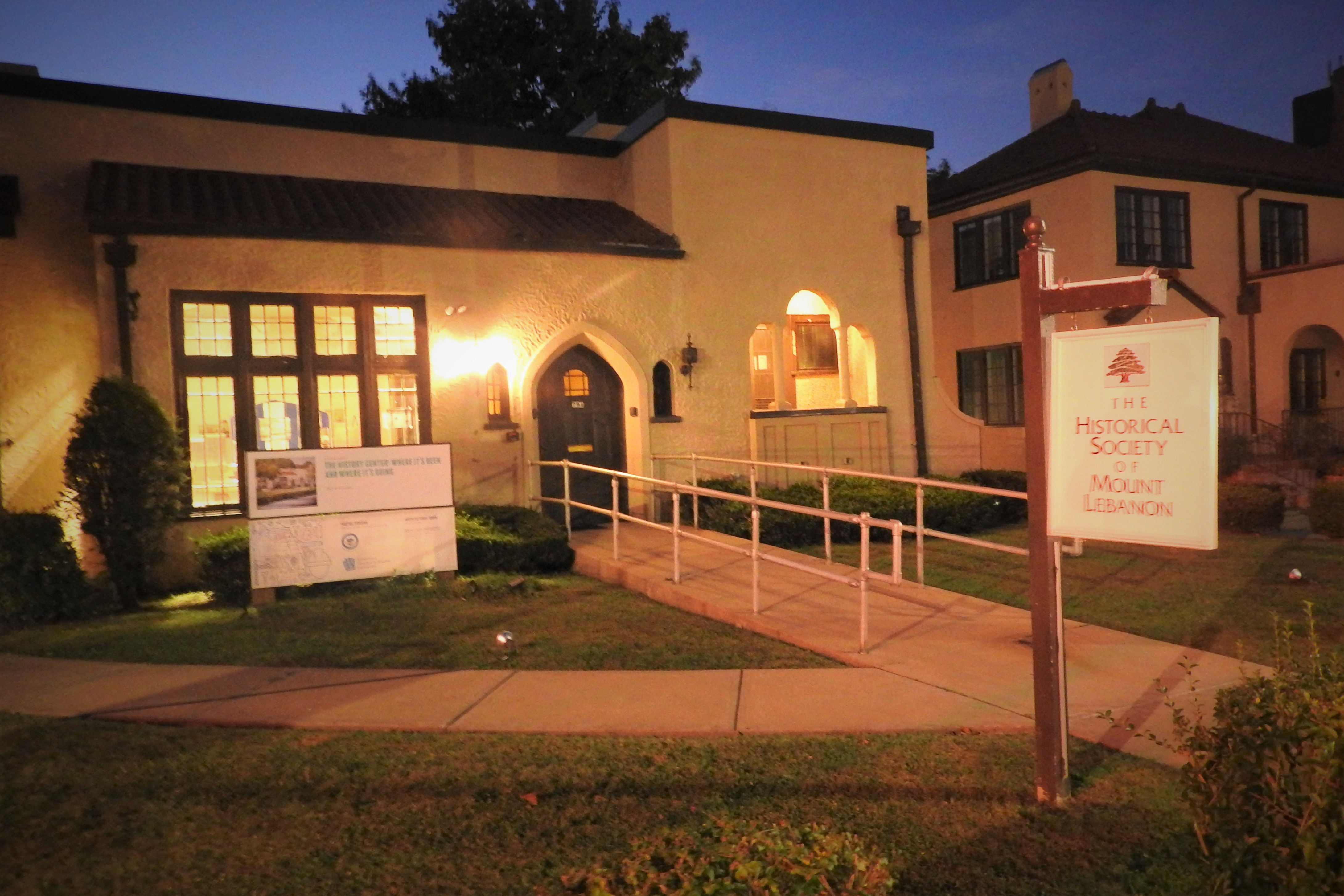 Looking west in twilight from Washington Road